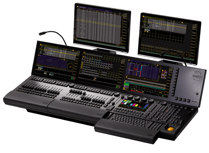 A GrandMA2 Full Size Lighting console made by MALighting, that uses their software to control lighting instruments over a DMX512 connection.